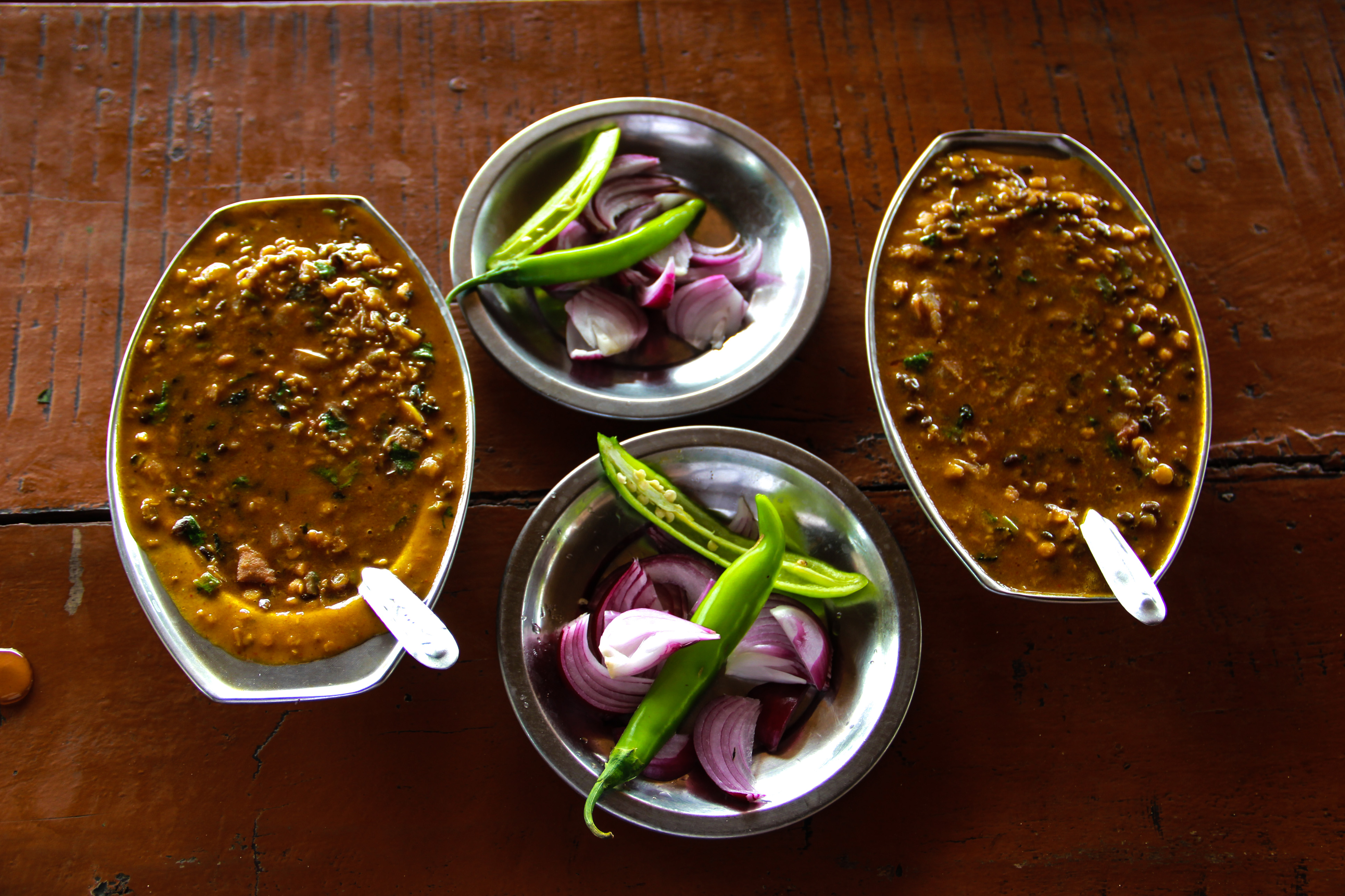 Dal Curry and Pyas This media file is uploaded with Malayalam loves Wikimedia event - 3.